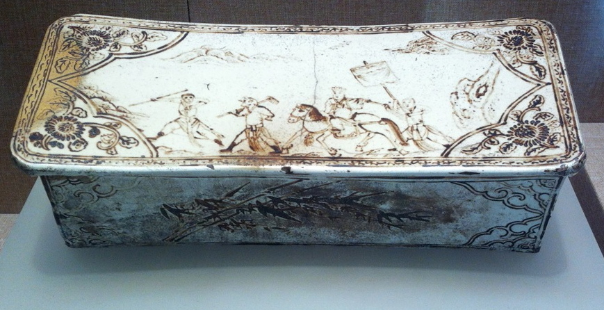 A Yuan Dynasty (1271 -1368) porcelain pillow from the Guangdong Museum in Guangzhou, China. It shows the five main characters from the Chinese novel Journey to the West; Monkey, Pig, the dragon horse, Sanzang and Friar Sand.